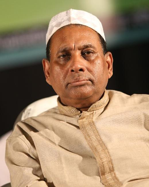 CU VC at Prophet's day 2015